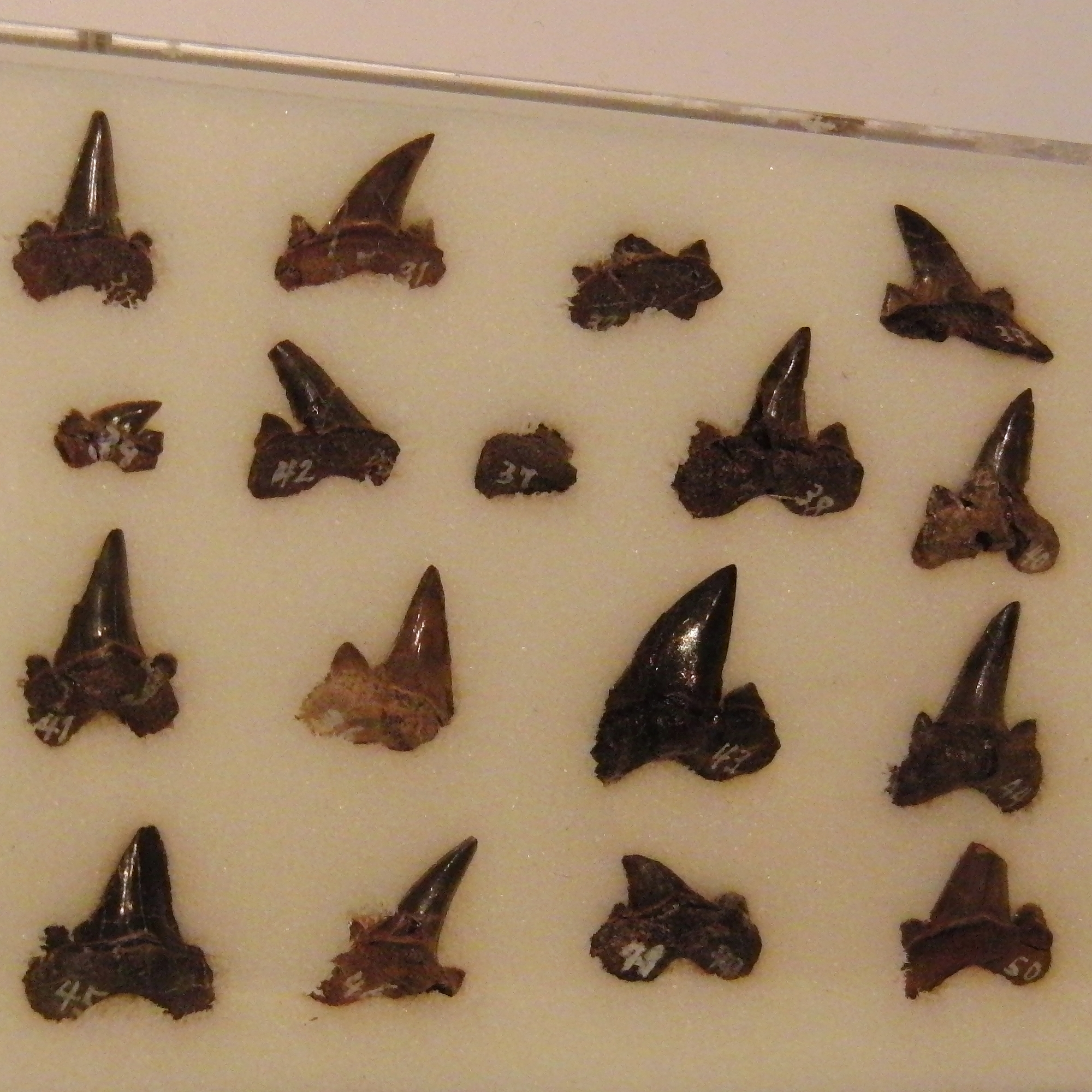 Shark teeth (lamnid shark Cretolamna sp.) found with Futabasaurus. Exhibit in the National Museum of Nature and Science, Tokyo, Japan.